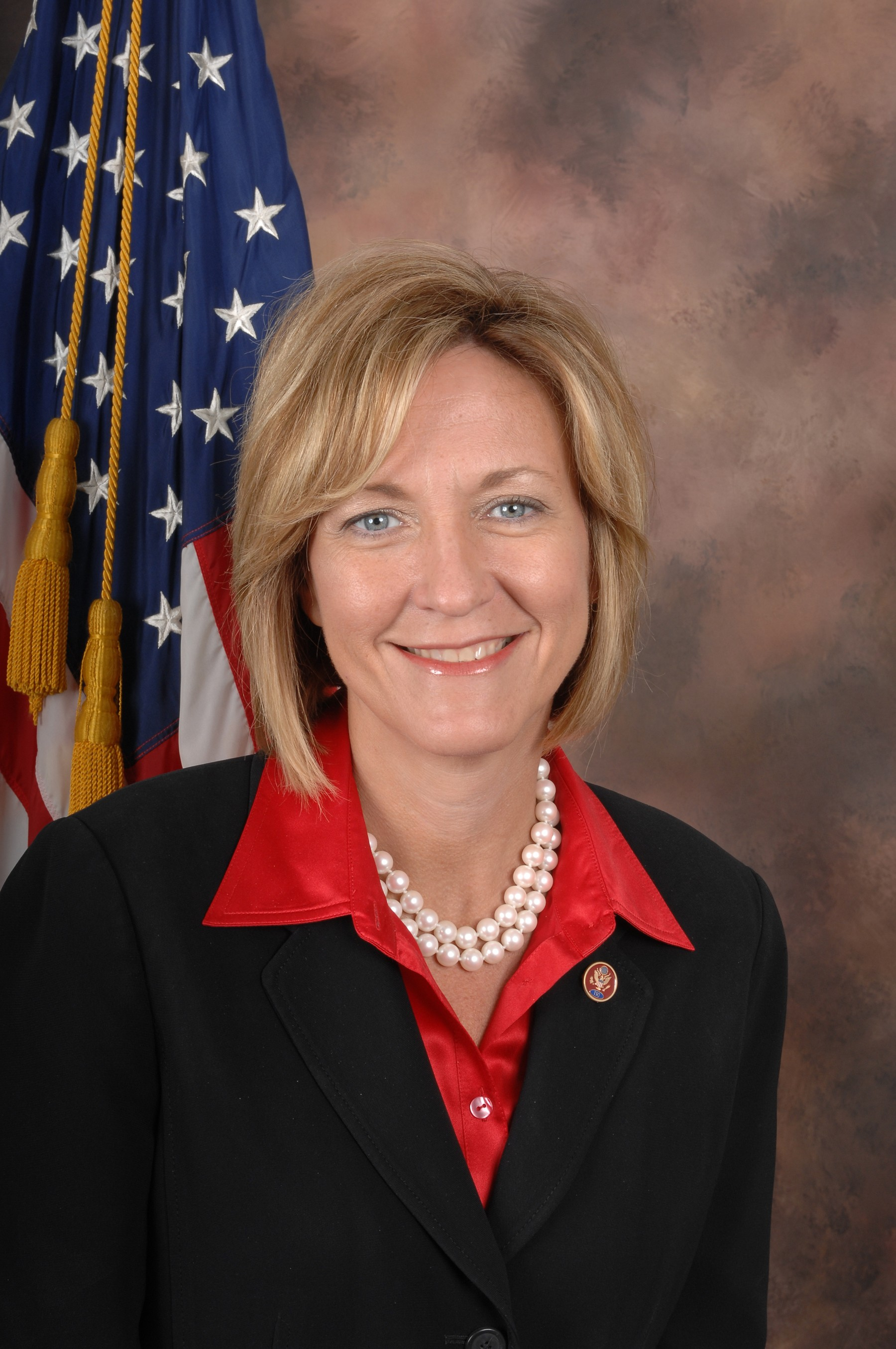 Betty Sutton, member of the United States House of Representatives.